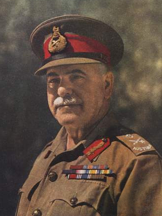 General Sir Thomas Blamey